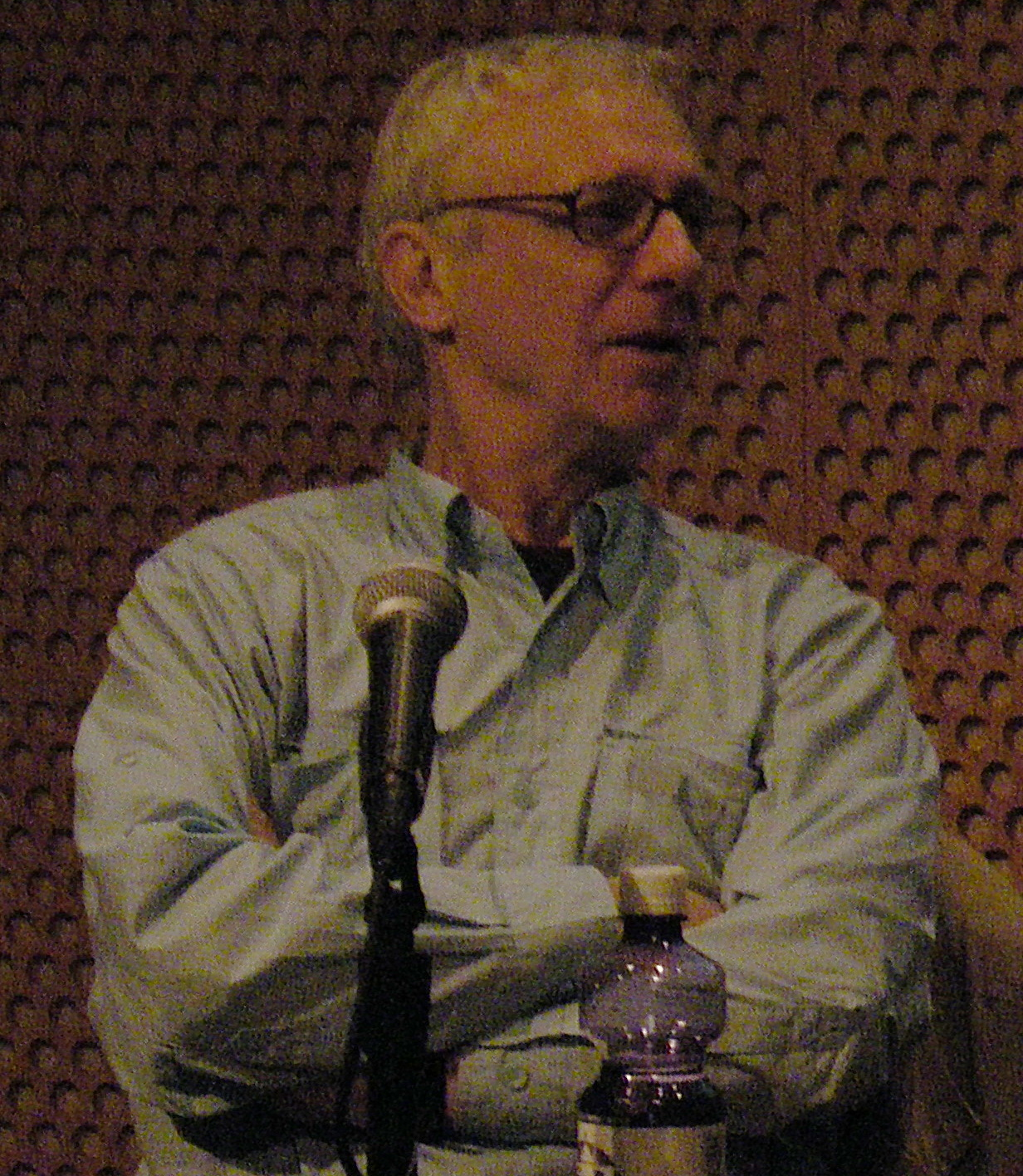 Music critic Robert Christgau on the "Songs of Intimacy" panel at the 2009 Pop Conference, Experience Music Project, Seattle, Washington.